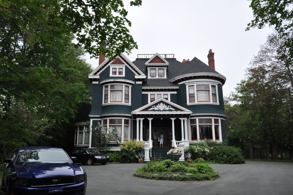 Winterholme National Historic Site of Canada, 79 Rennie's Mill Road, St. John's, Newfoundland.